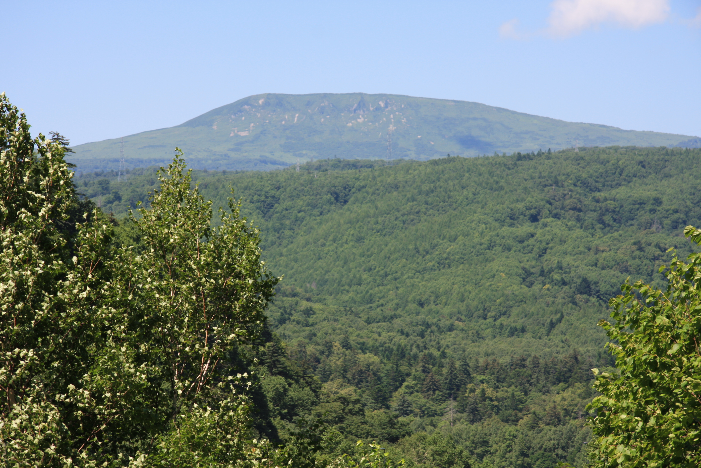 Mount Muine seen from the ESE in Hokkaido, Japan.